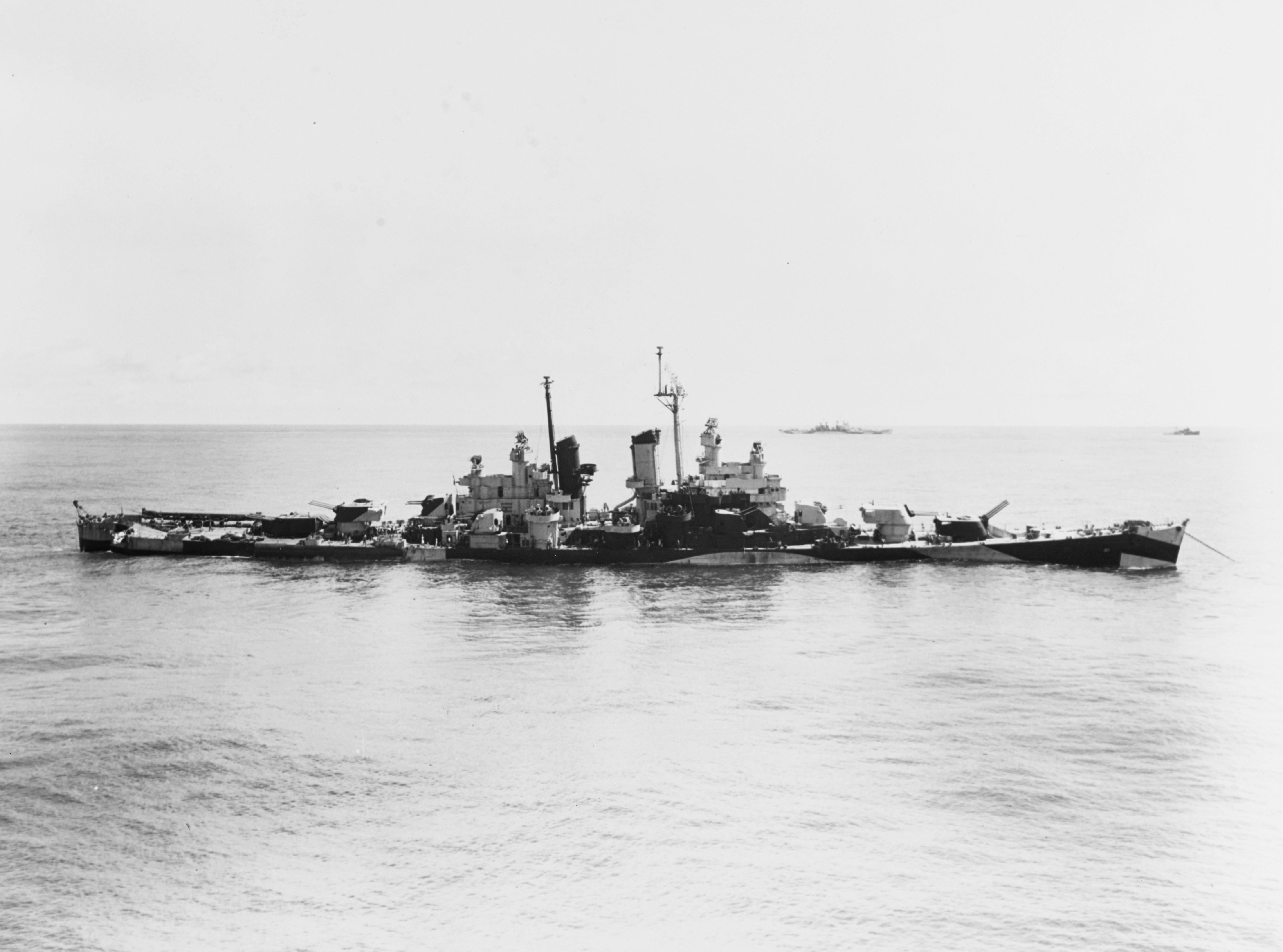 The U.S. Navy light cruiser USS Houston (CL-81) under tow on 17 October 1944, after she had been torpedoed twice by Japanese aircraft during operations off Formosa. The first torpedo hit Houston amidships on 14 October. The second struck the the cruiser's starboard quarter while she was under tow on 16 October. Damage from that torpedo is visible in this view. The heavy cruiser USS Canberra (CA-70), also torpedoed off Formosa, is under tow in the distance.